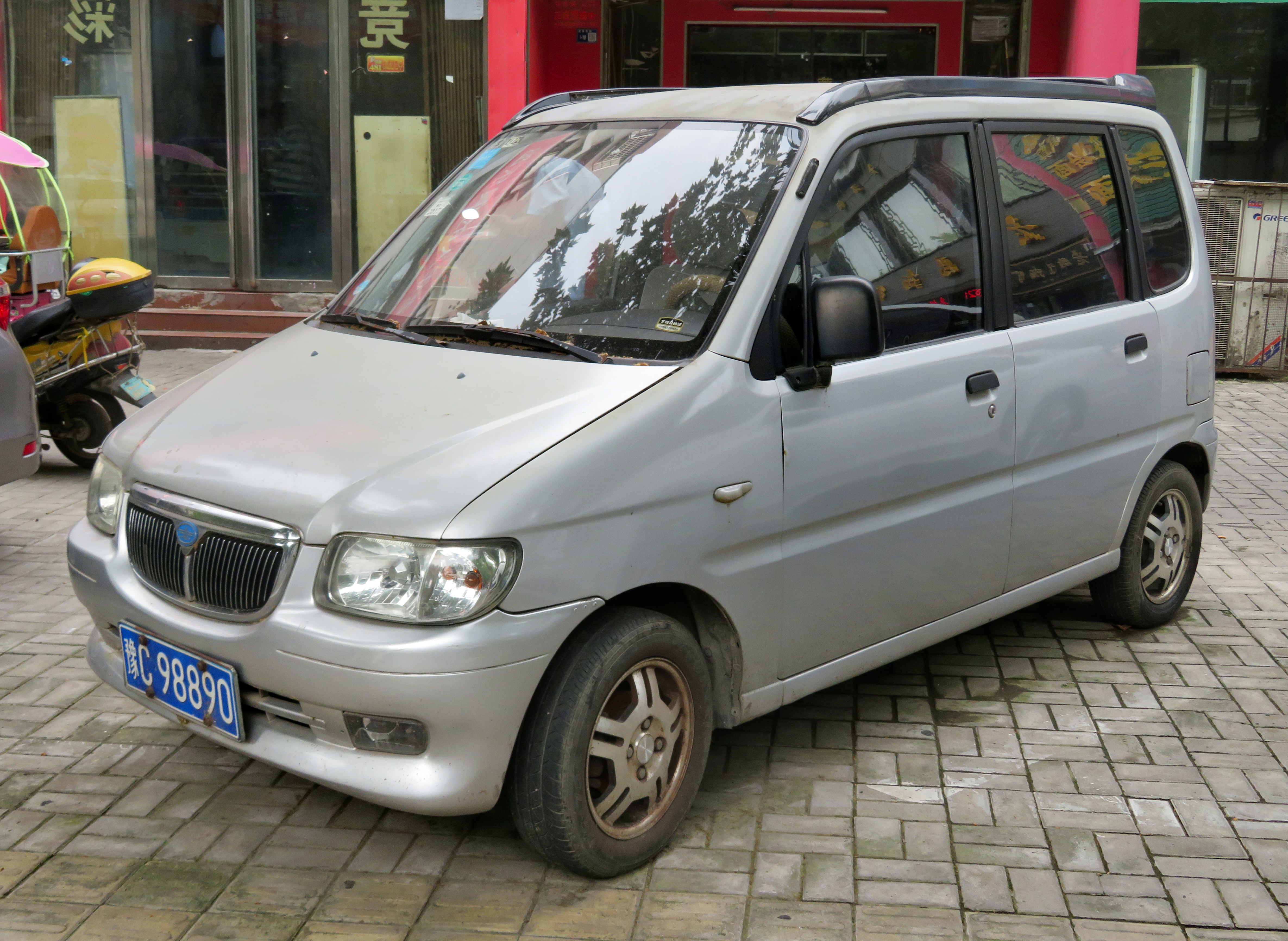 A 2005 FAW-Huali(Jiaxing) Happy Messenger TJ6341 photographed in Xigong District, Luoyang, Henan province, China